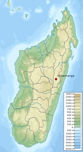 Mapo pri la situo de la urbo Moramanga enkadre de Madagaskaro